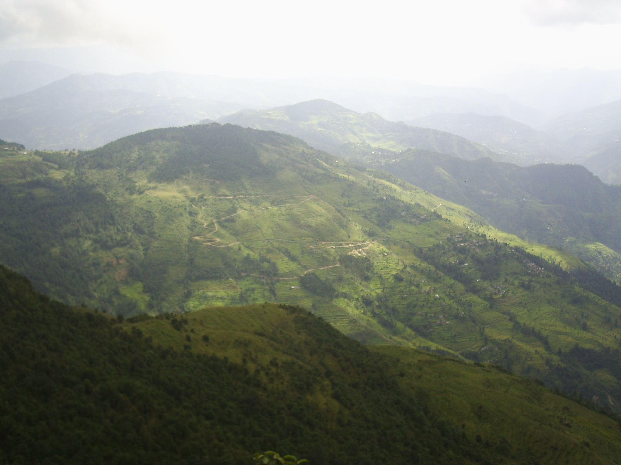 roads in the rural areas